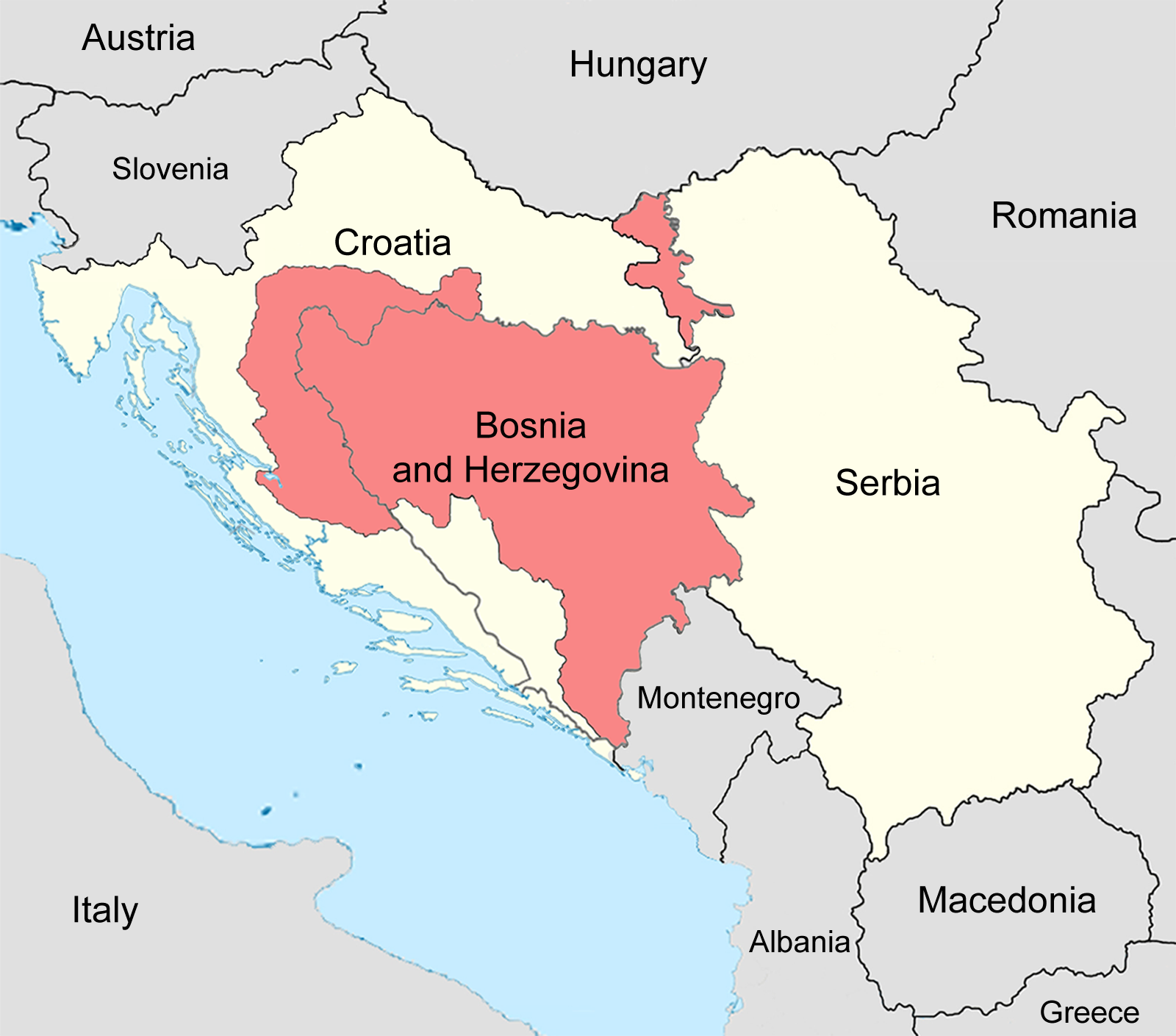 Western-Serbian Federation imagination (No-Croat Bosnian territories + Republic of Serbian Krajina)